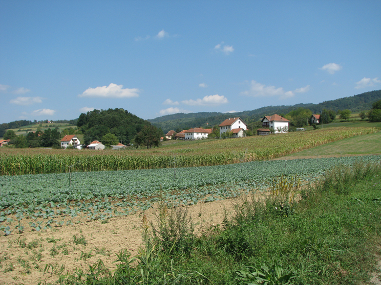 Panoramic view of Bjelotići, near Užice, Serbia.